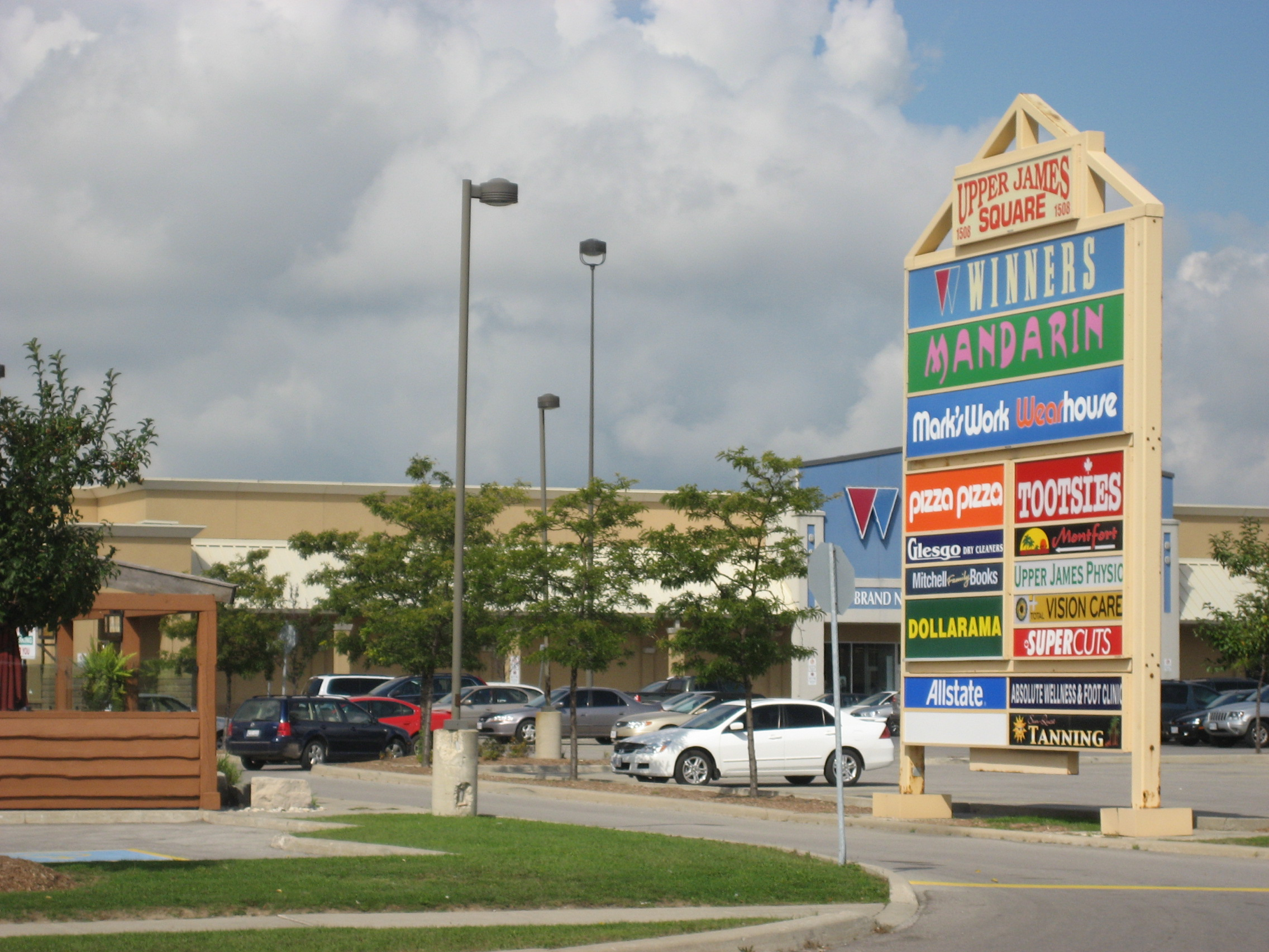 Upper James Square, Hamilton, Canada.